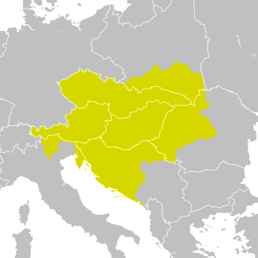 Austro-Hungarian Monarchy (1914) over postwar map of Europe (1929)